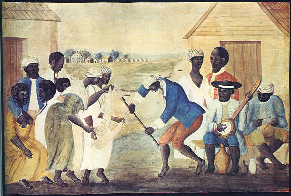 "The Old Plantation" late 18th century - from John Michael Vlach, The Afro-American Tradition in Decorative Arts. 1978.